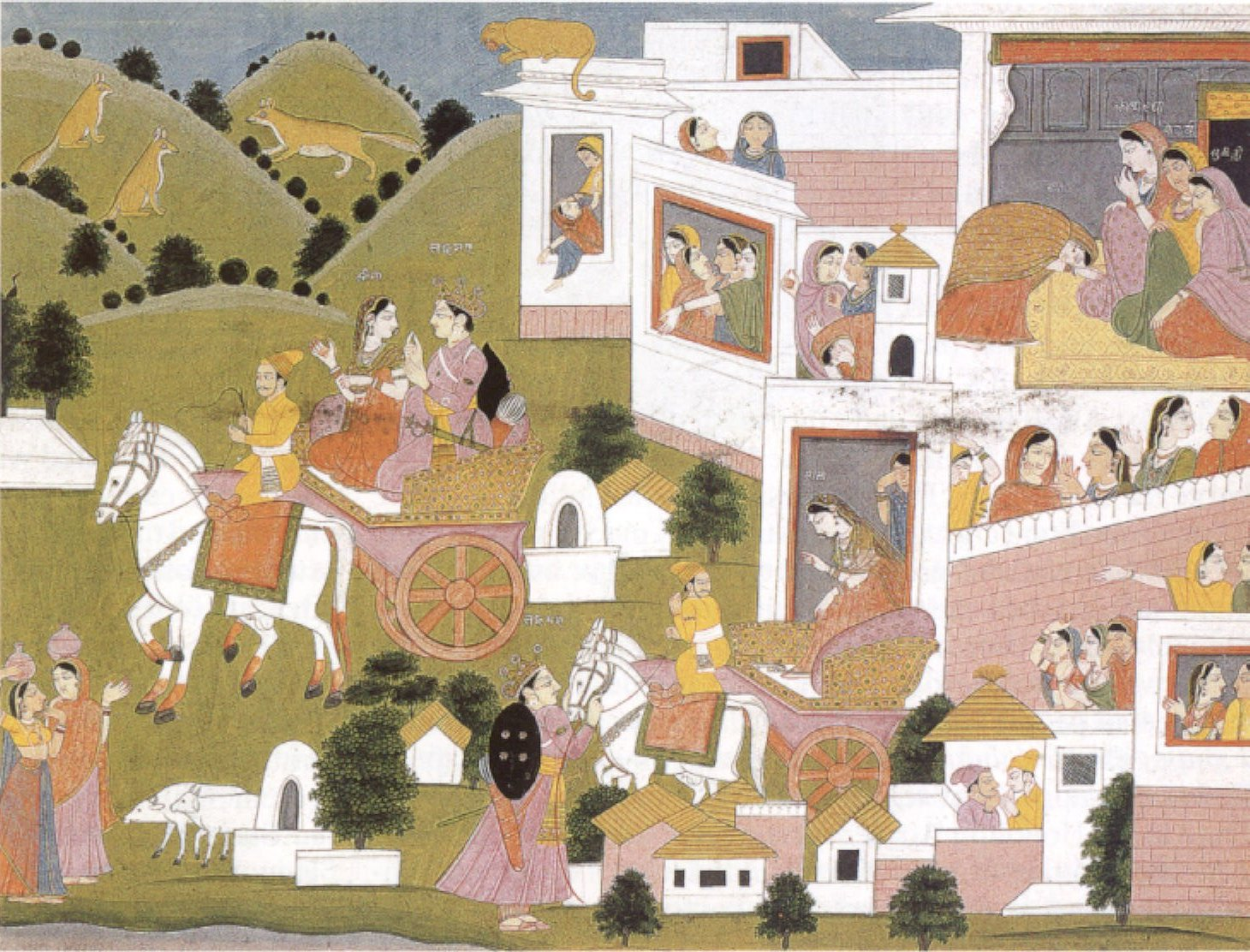 Sita and Lakshmana Leave Ayodhya, Kangra, Himachal, India, early 19th century, color on paper, Honolulu Academy of Arts